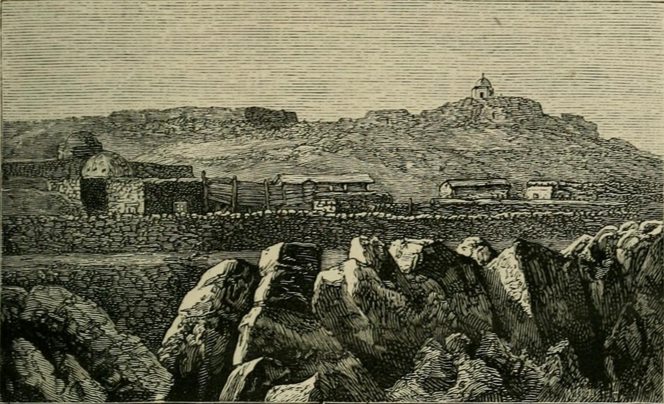 An 1886 drawing of the village of al-Shaykh Saad in the Hauran region of Syria. Based on a photograph.